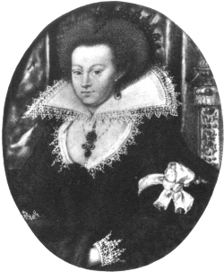 Miniature portrait of Elizabeth Spencer, Baroness Hunsdon.